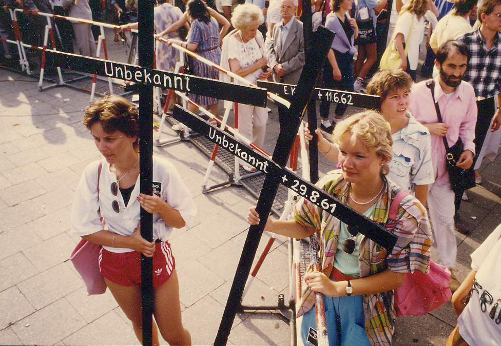 Participants at the 25th Anniversary of the Berlin Wall August 1986 remember people who perished while trying to escape. Photograph by Nancy Wong.